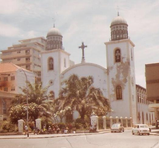 Luanda Cathedral.